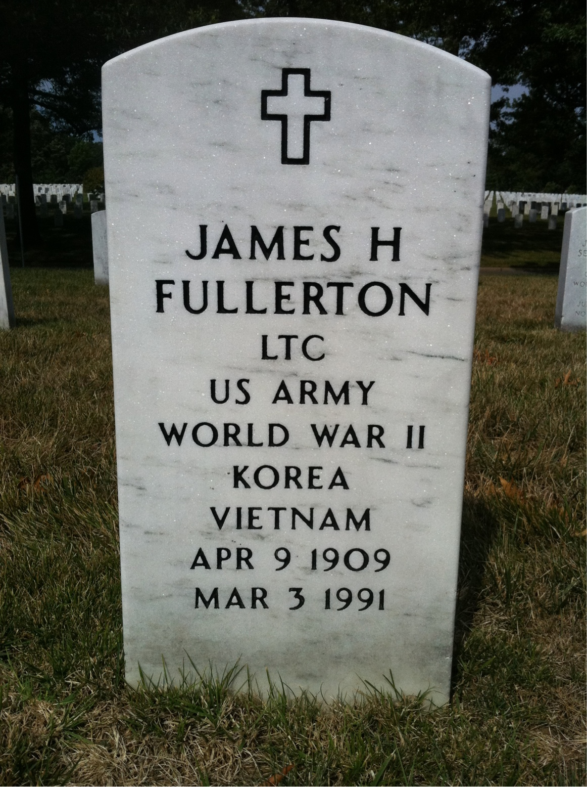 Grave of James Fullerton at Arlington National Cemetery